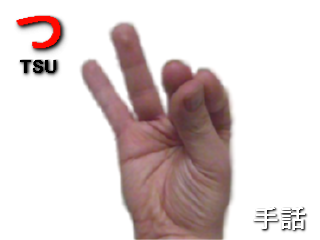 Never give up on a project! Here I am with new equipment so I can finish off the chart on the Japanese manual syllabary that I started almost TWO years ago. This is character TSU.